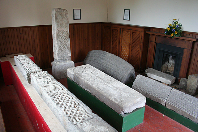 Abercorn Museum